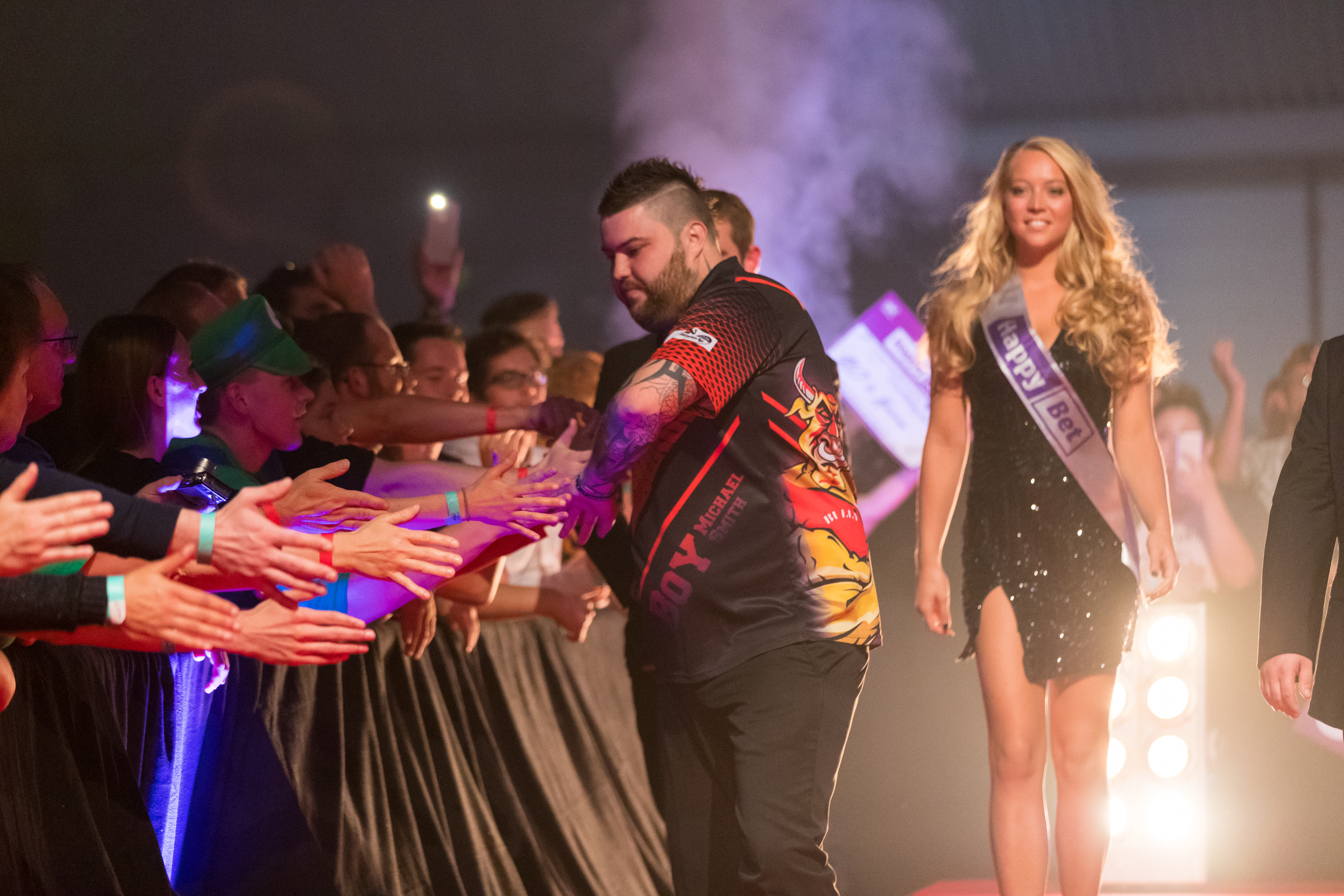 [4] Simon Whitlock (AUS) 6:2 [5] Michael Smith (ENG) during Professional Darts Corporation (PDC), German Darts Grand Prix (GDGP) at Maimarkthalle, Mannheim, Baden-Württemberg, Germany on 2017-09-10, Photo: Sven Mandel